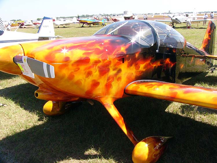 I took this photo